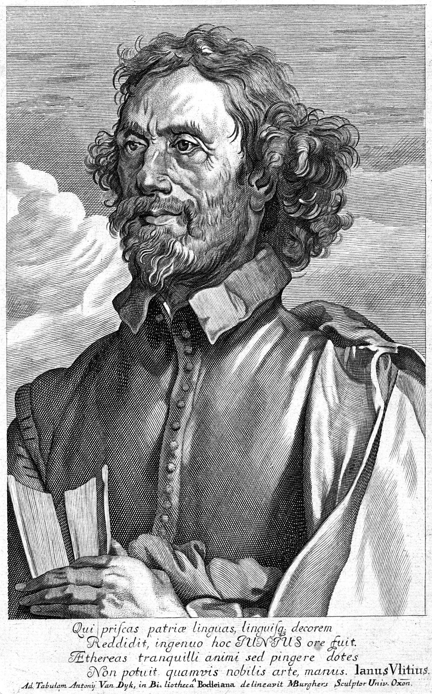 François Junius (Franciscus Junius (29 January 1591 – 1677) engraving 21.1 x 13.3 cm 1698